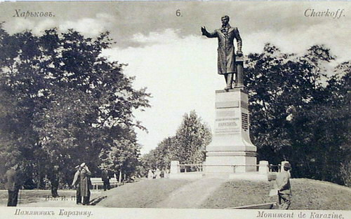 Univercity Park in Kharkov. Russian Empire Postcard